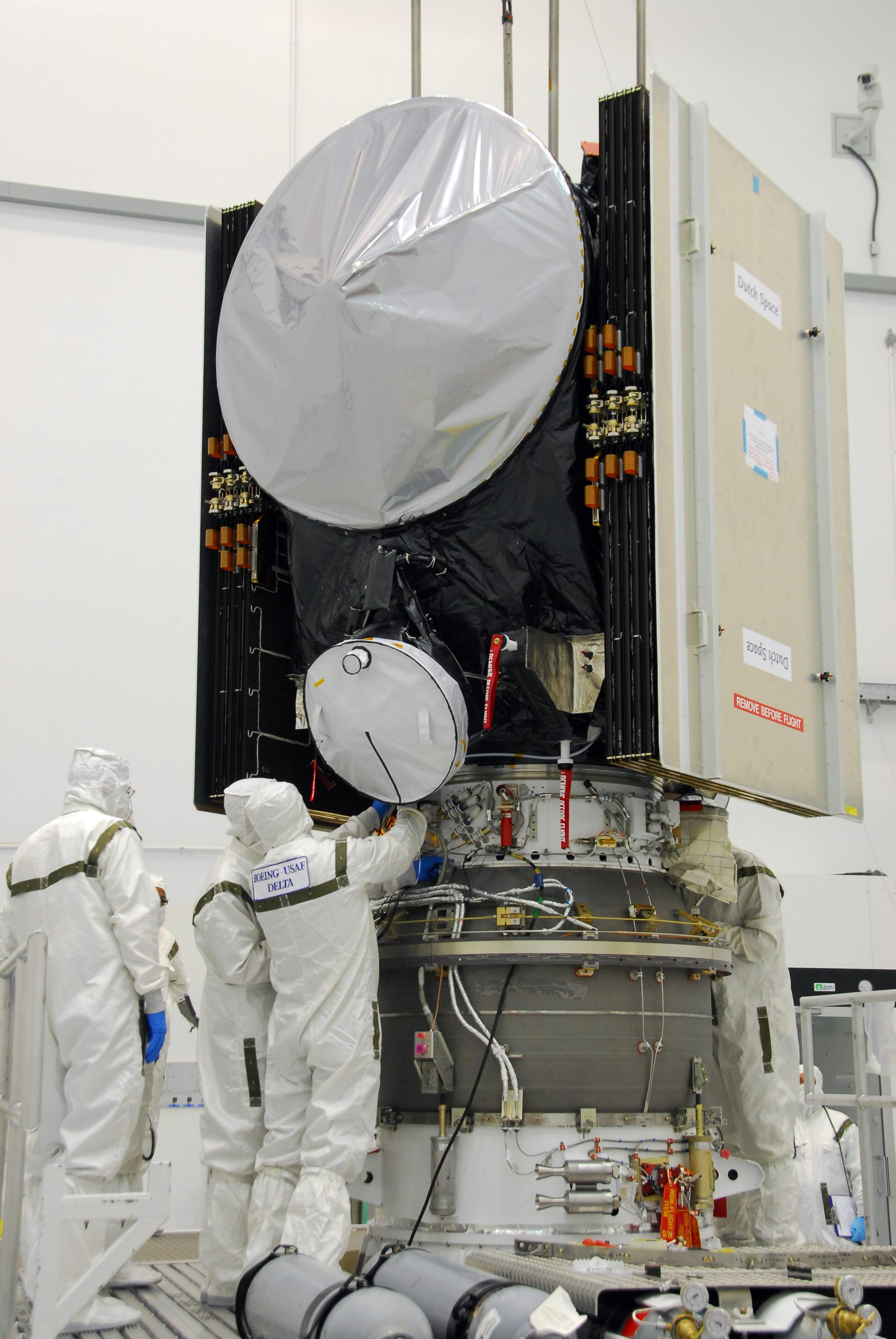 Dawn Spaceprobe on the Delta II 7925H upperstage.